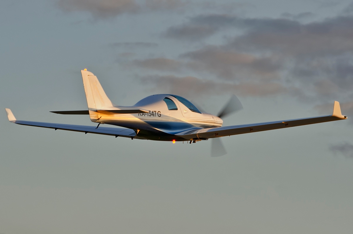 Flight. Dunamic RA-1547G